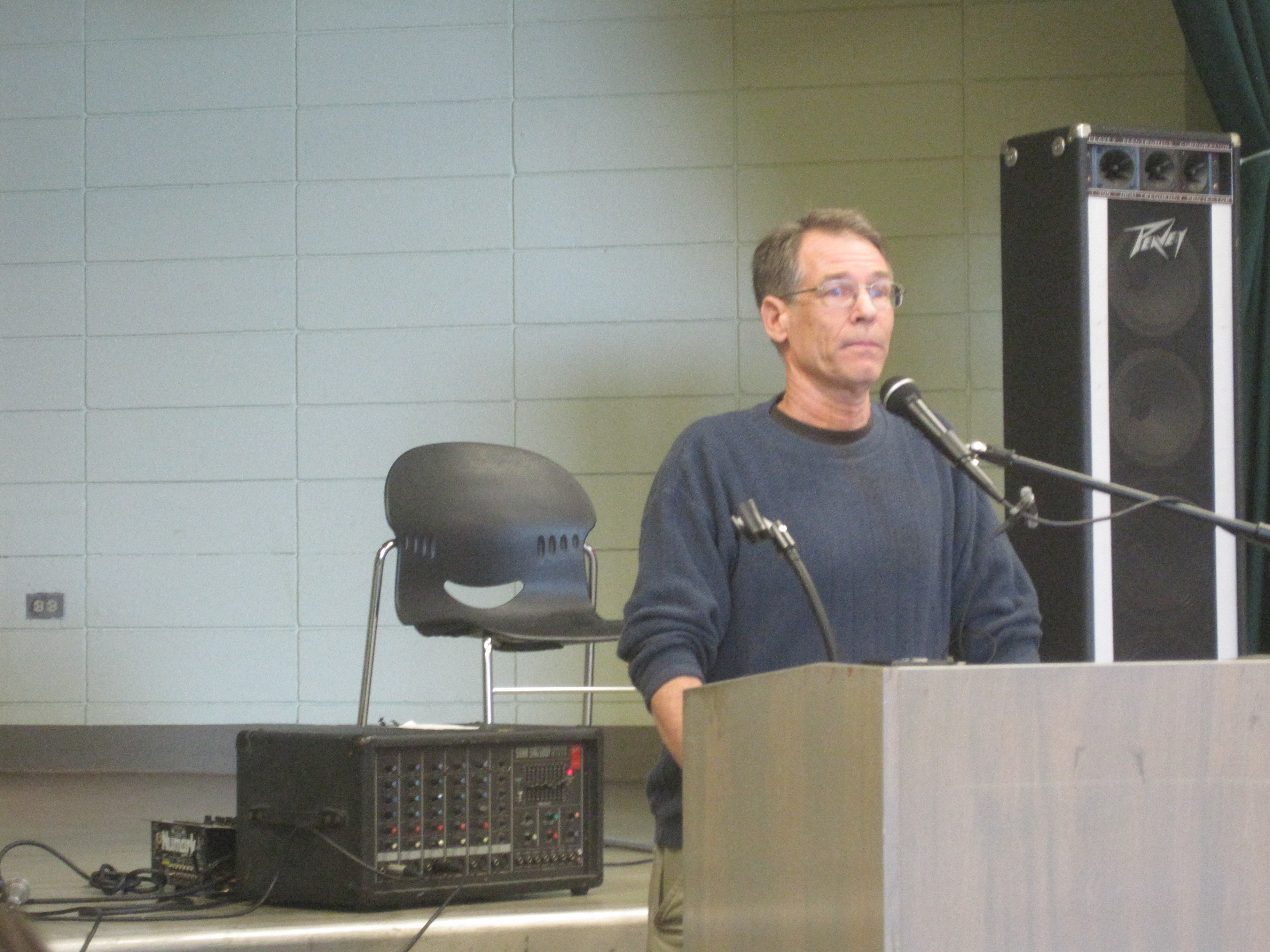 Photo of Kim Stanley Robinson speaking at the Anarchist Bookfair in San Francisco